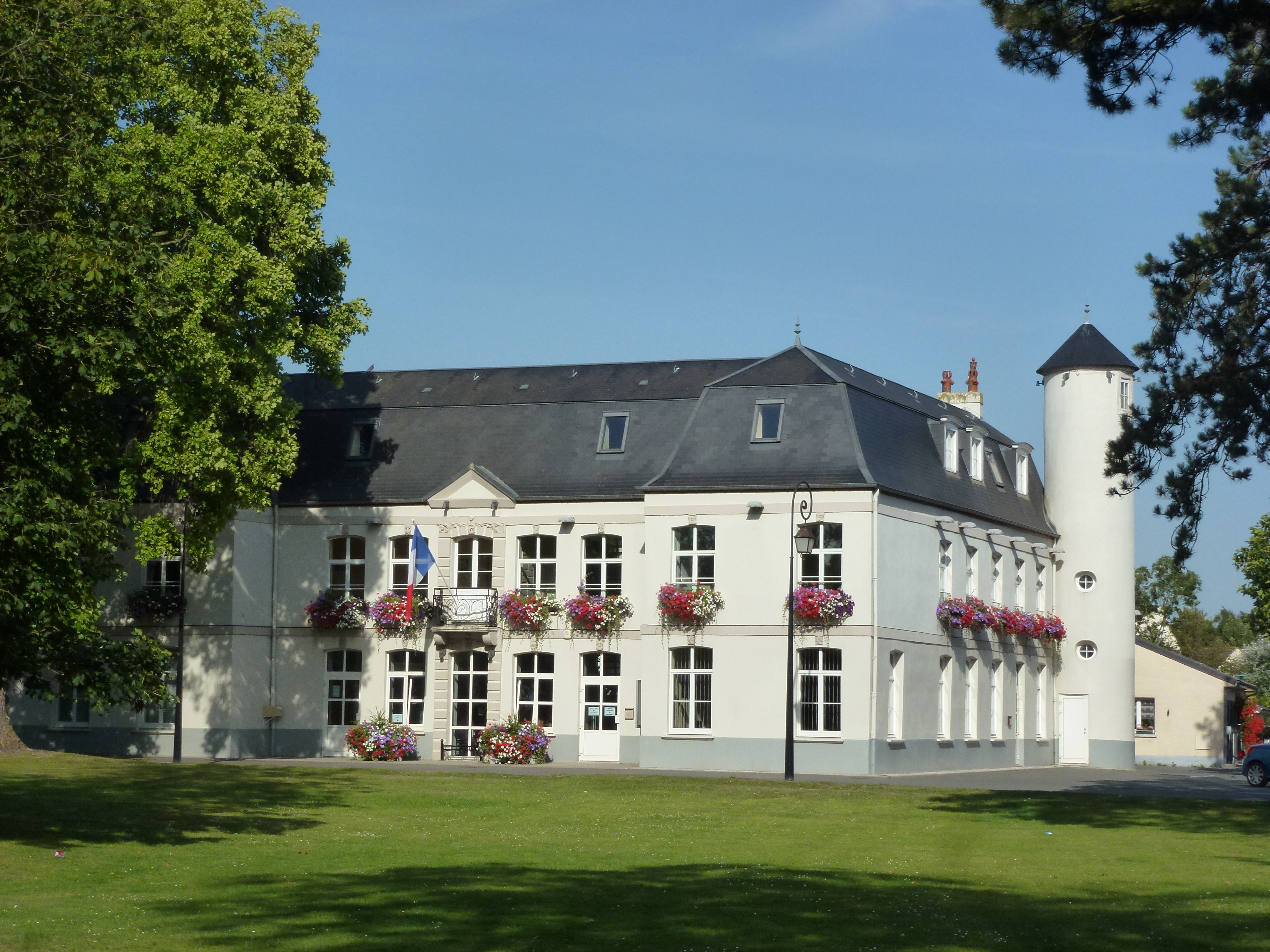 Audruicq (Pas-de-Calais) mairie